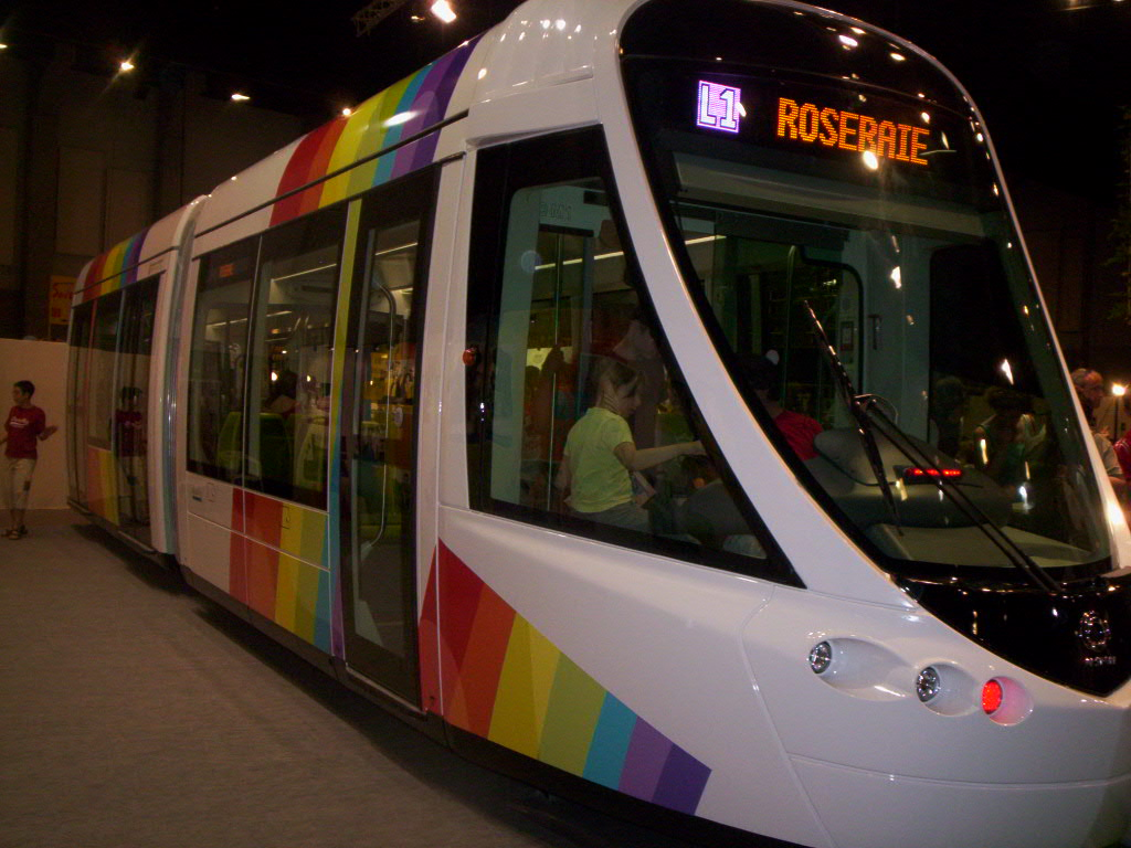 future tramway d'Angers photographié à la foire expo d'Angers 2007